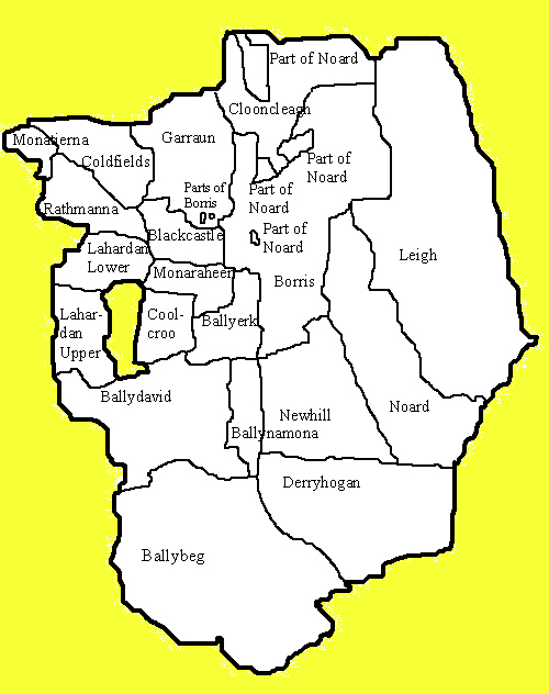 Improved version of an outline map showing the townlands in Borrisleigh civil parish in North Tipperary